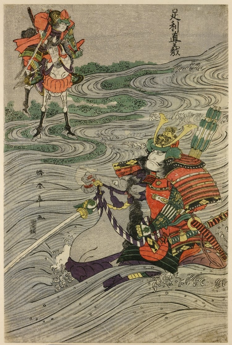 Ashikaga Tadayoshi fording the river at Kawanaka-jima